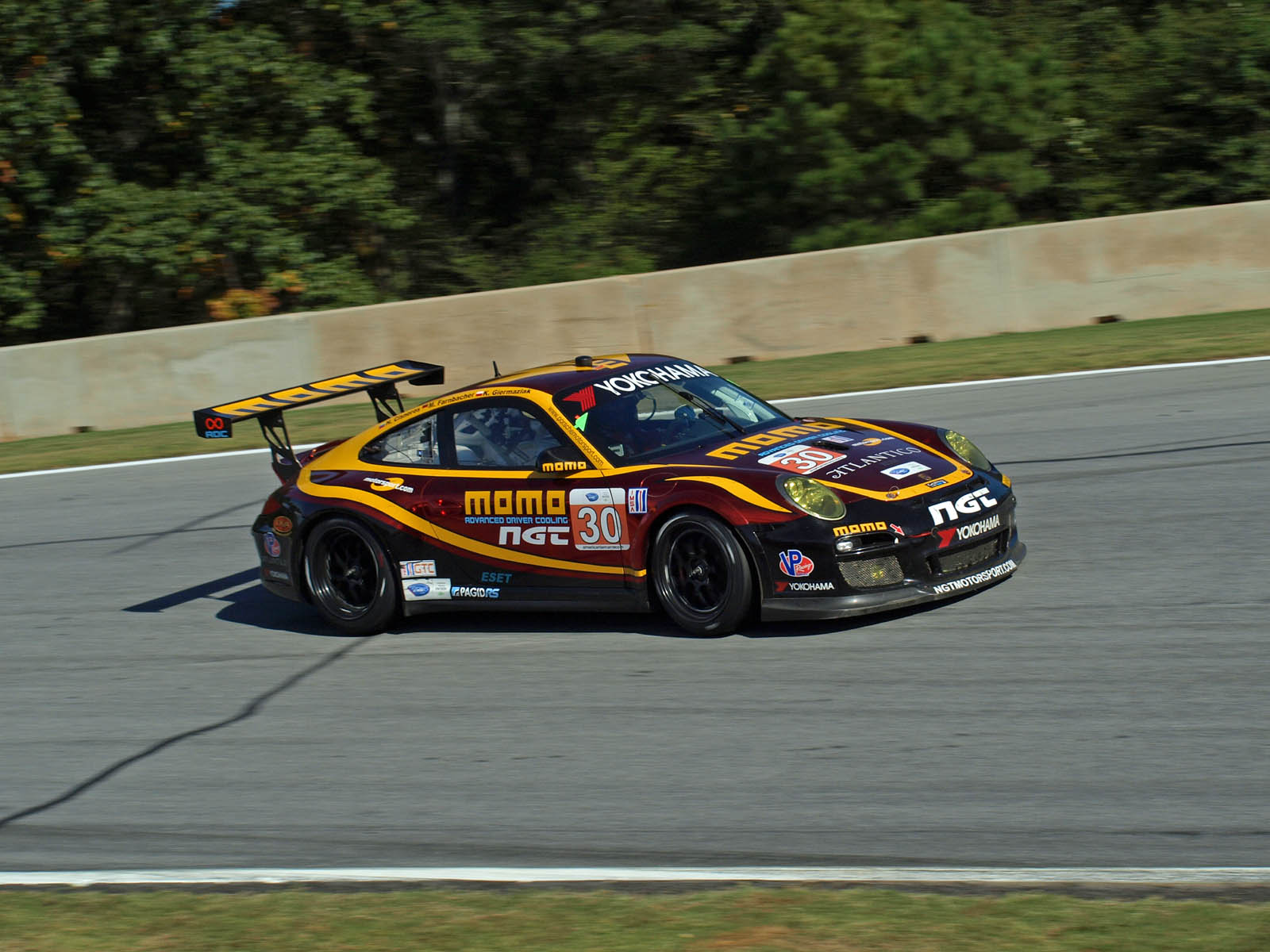 The NGT Motorsport Porsche 997 GT3 Cup at the 2012 Petit Le Mans